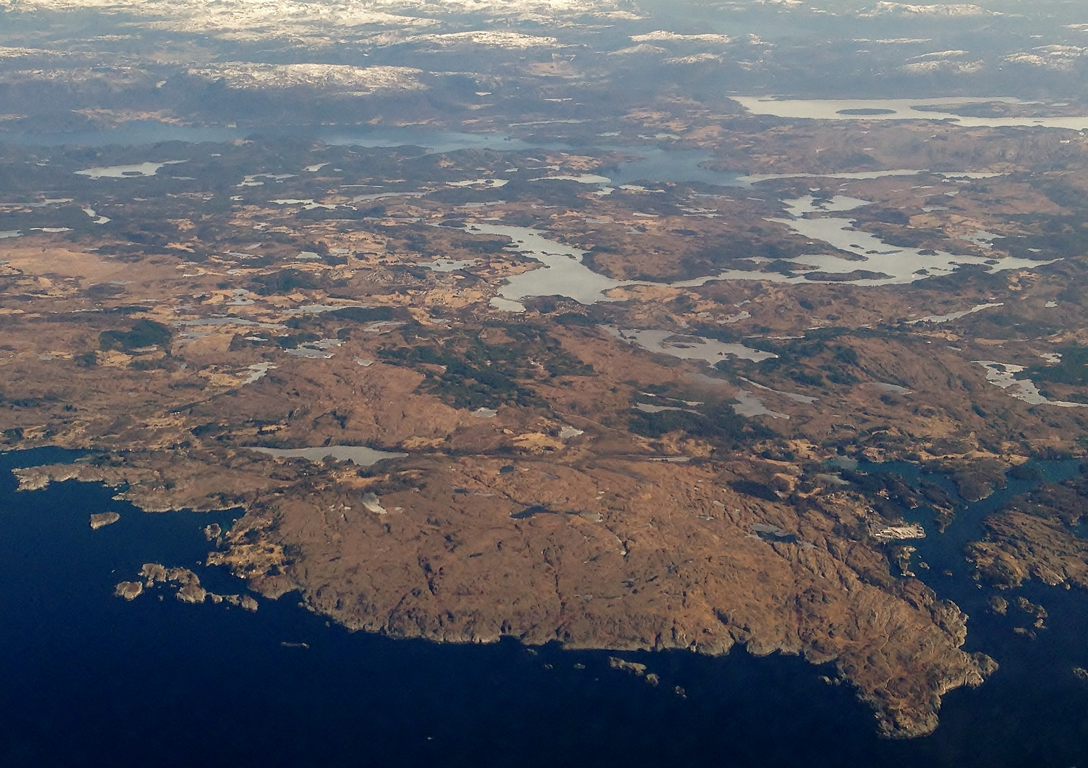 Sveio, Rogaland, Norway, from the air